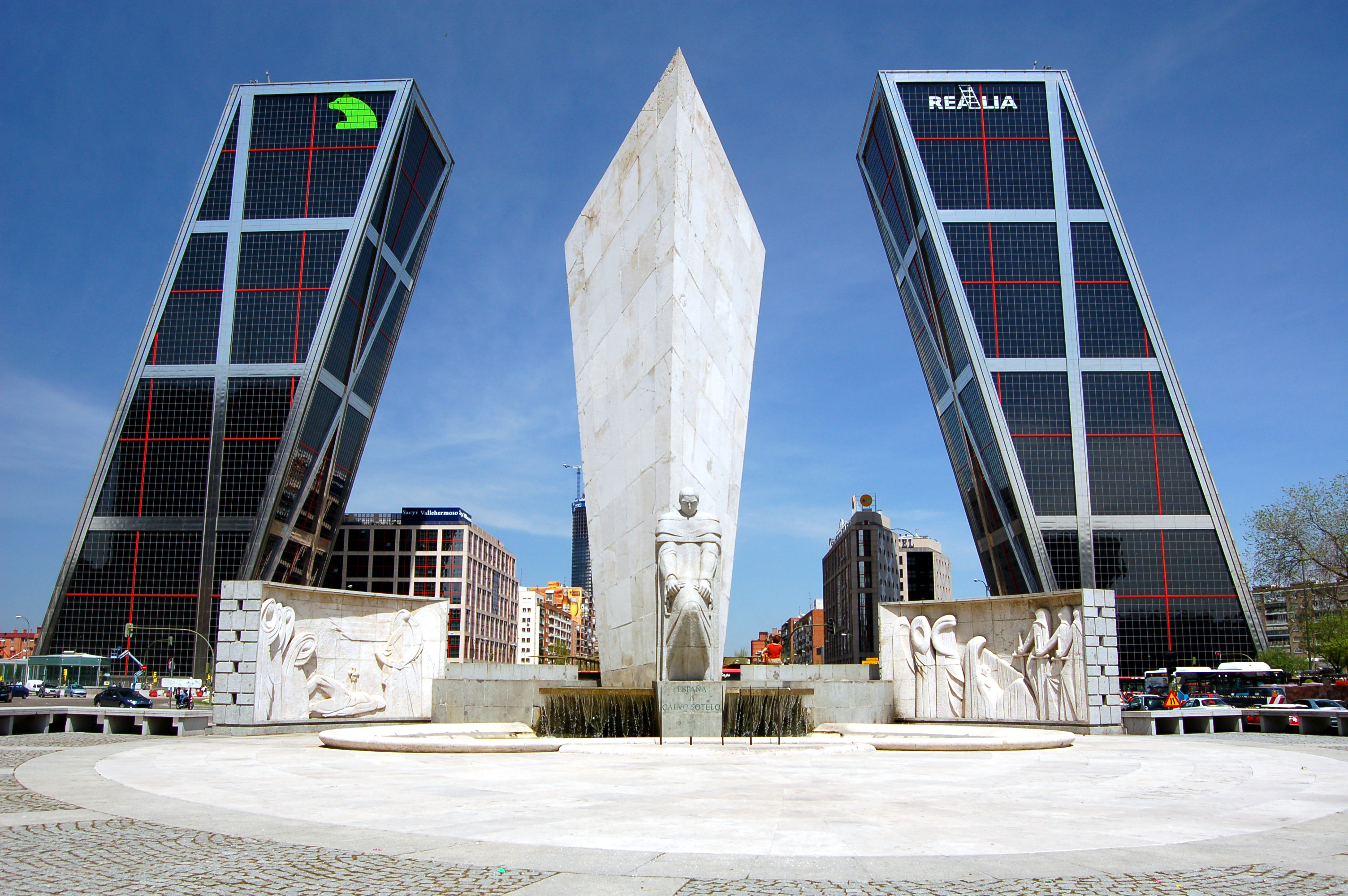 Plaza de Castilla (square) in Madrid (Spain): Monument to José Calvo Sotelo and Puerta de Europa buildings.